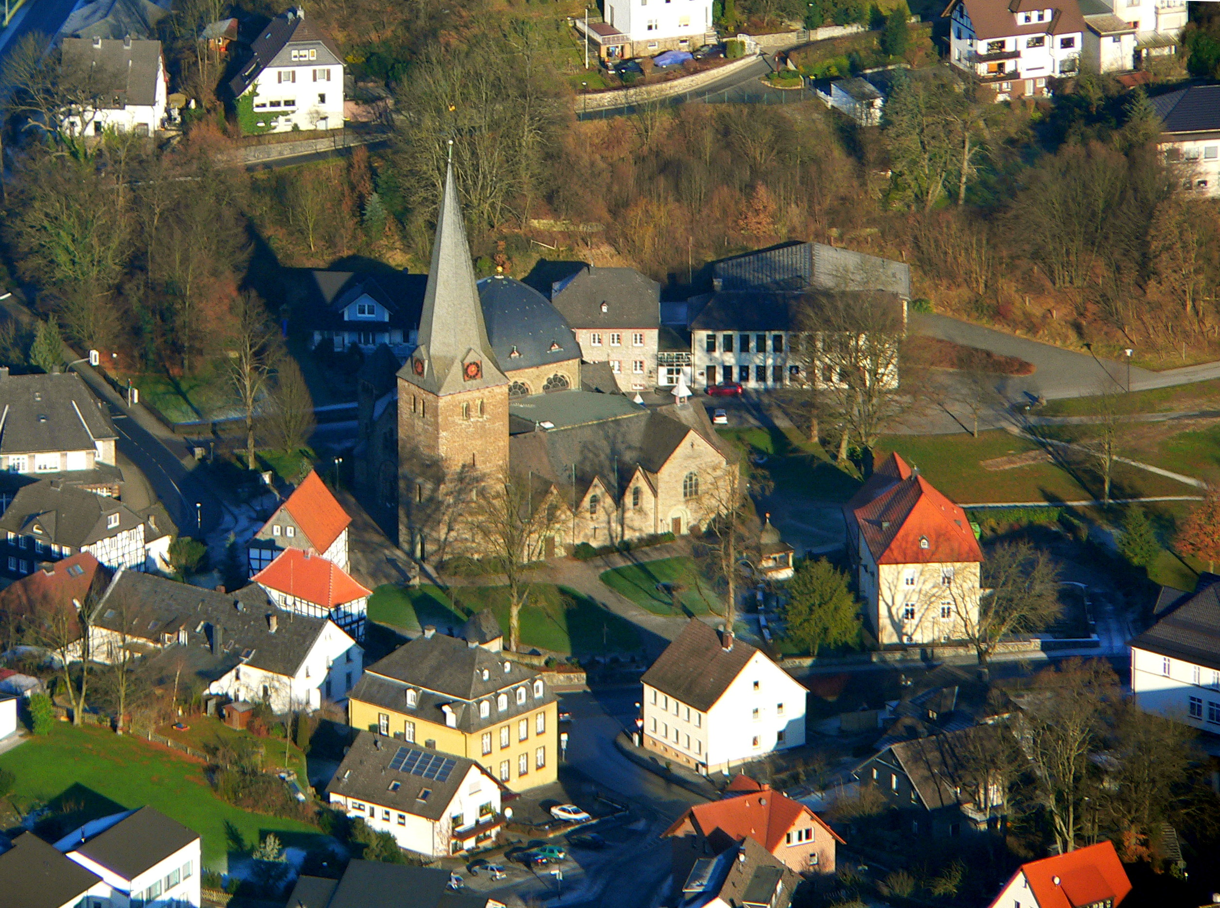 St.Blasius church, Balve